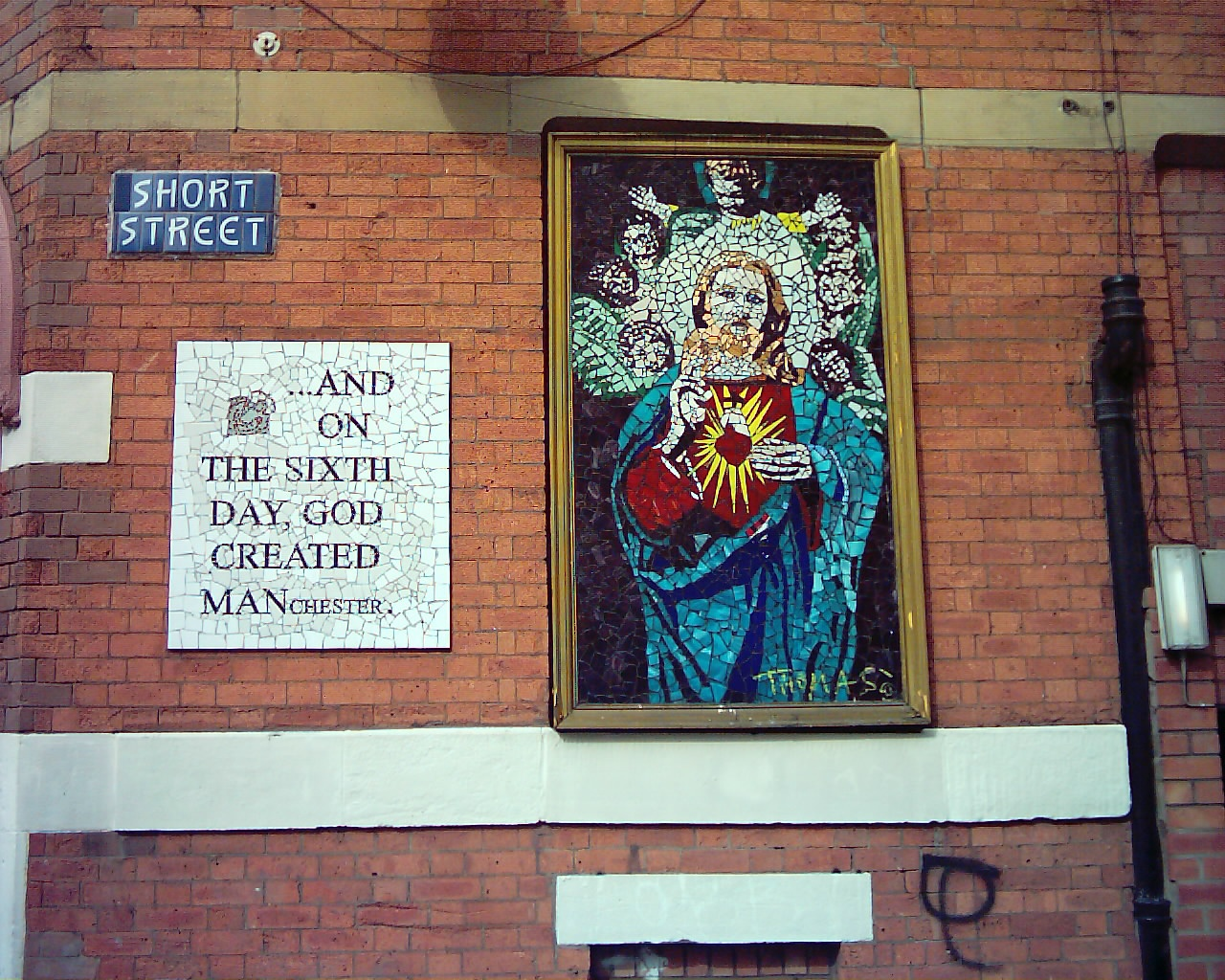 The obvious picture. On the side of Affleck's Palace. Affleck's is well known in Manchester as "the place that isn't as good as when you used to go it when you were 16"....and on the sixth day